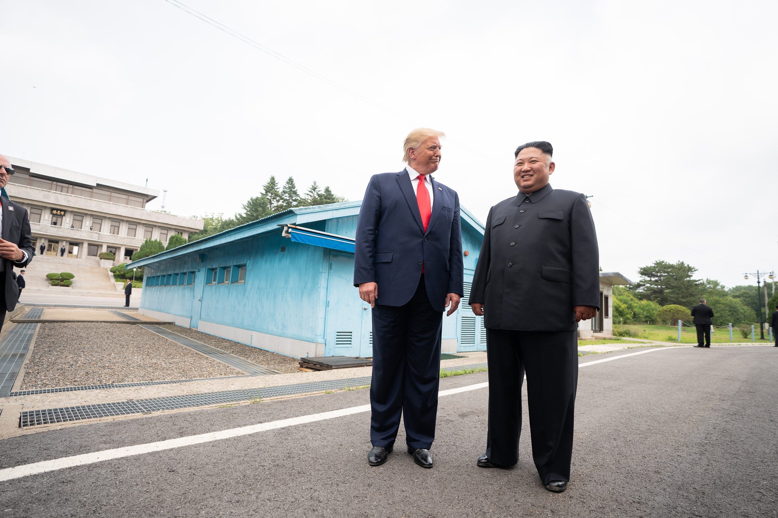 President Donald J. Trump and Chairman of the Workers’ Party of Korea Kim Jong Un speak with reporters outside Freedom House Sunday, June 30, 2019, at the Korean Demilitarized Zone. (Official White House Photo by Shealah Craighead)